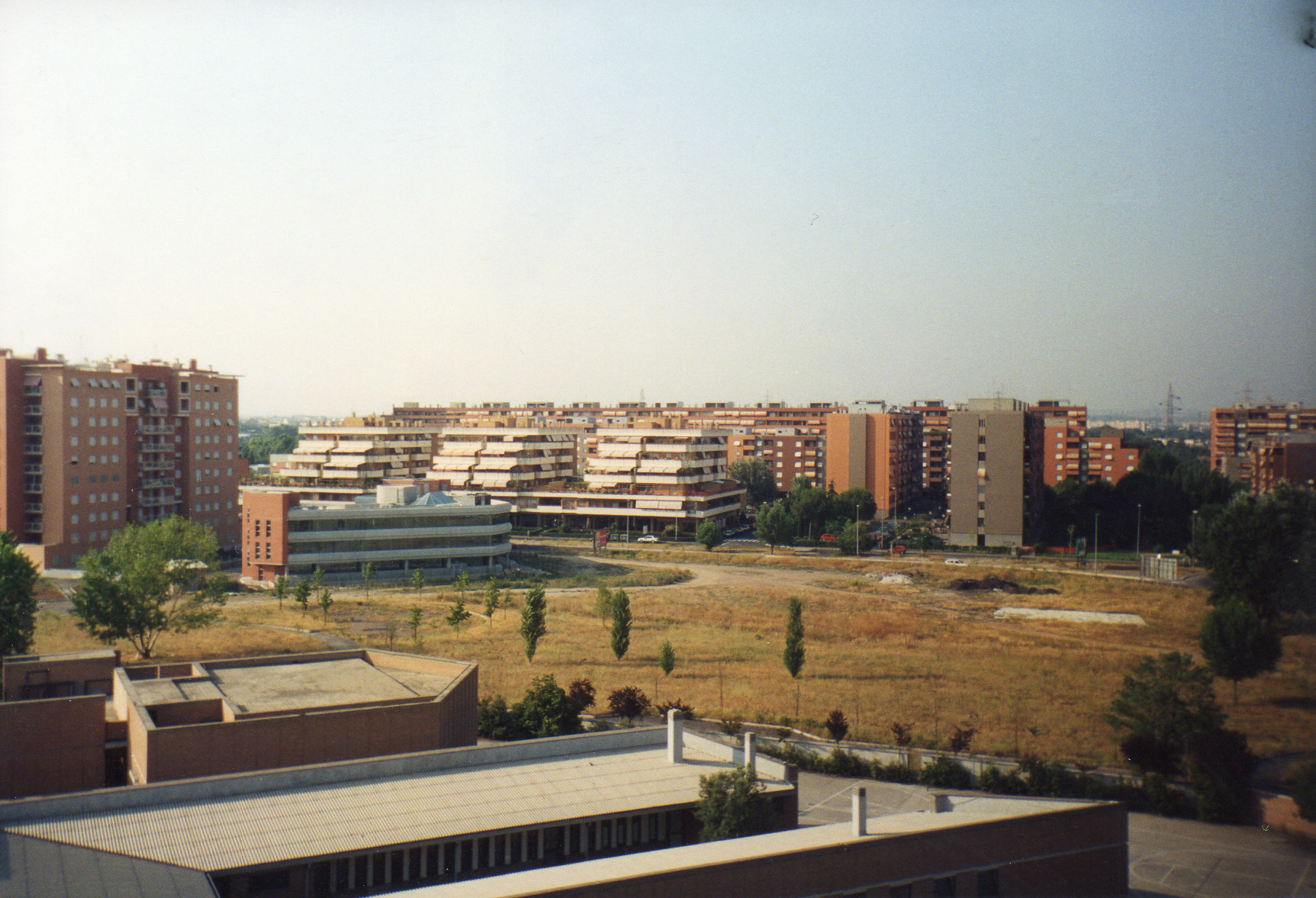 A view of Colli Aniene, a hamlet in the Eastern suburbs of Rome, Italy